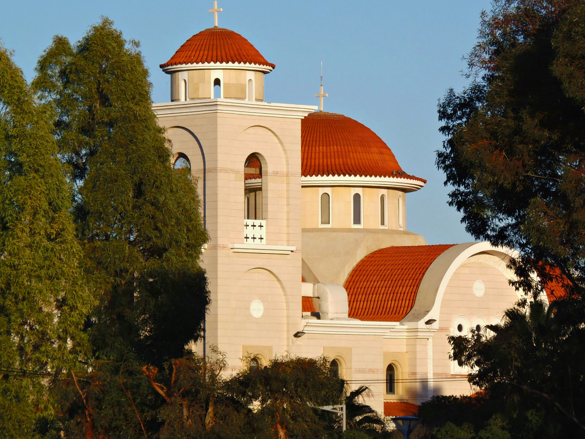 Agios Panteleimon Church, Nikosia, Cyprus